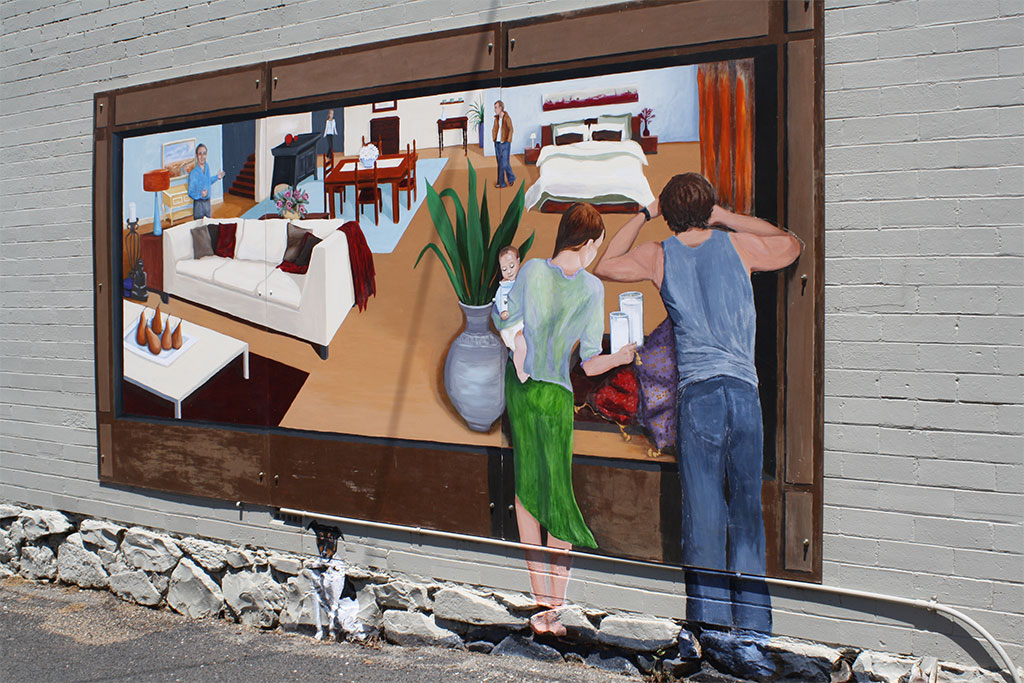 Trompe l'oeil on shop wall, Goulburn Street, Crookwell, NSW Australia